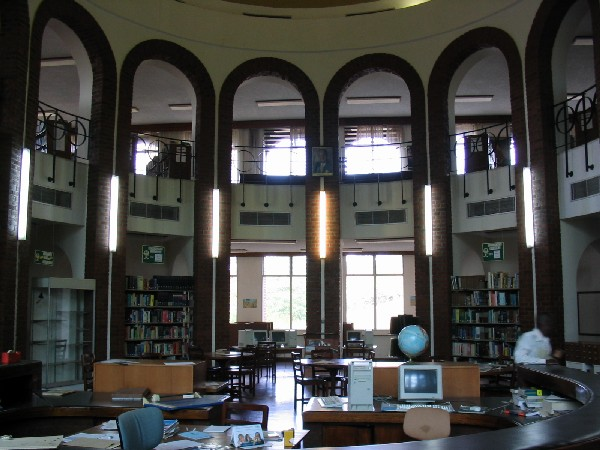 Photograph taken by Jack Curran